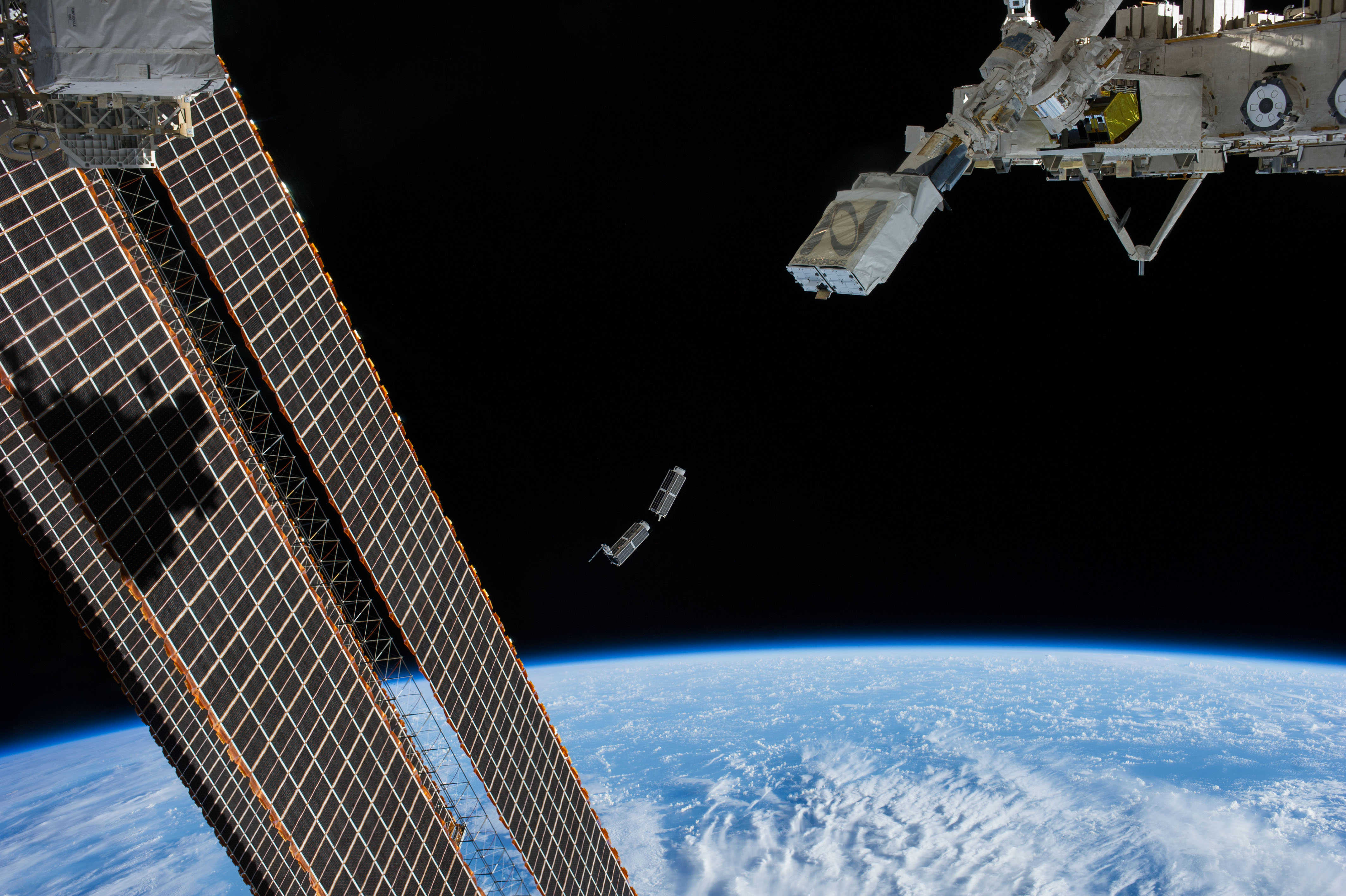 ISS038-E-056389 (25 Feb. 2014) --- A set of NanoRacks CubeSats is photographed by an Expedition 38 crew member after the deployment by the NanoRacks Launcher attached to the end of the Japanese robotic arm. The CubeSats program contains a variety of experiments such as Earth observations and advanced electronics testing. International Space Station solar array panels are at left. Earth's horizon and the blackness of space provide the backdrop for the scene.